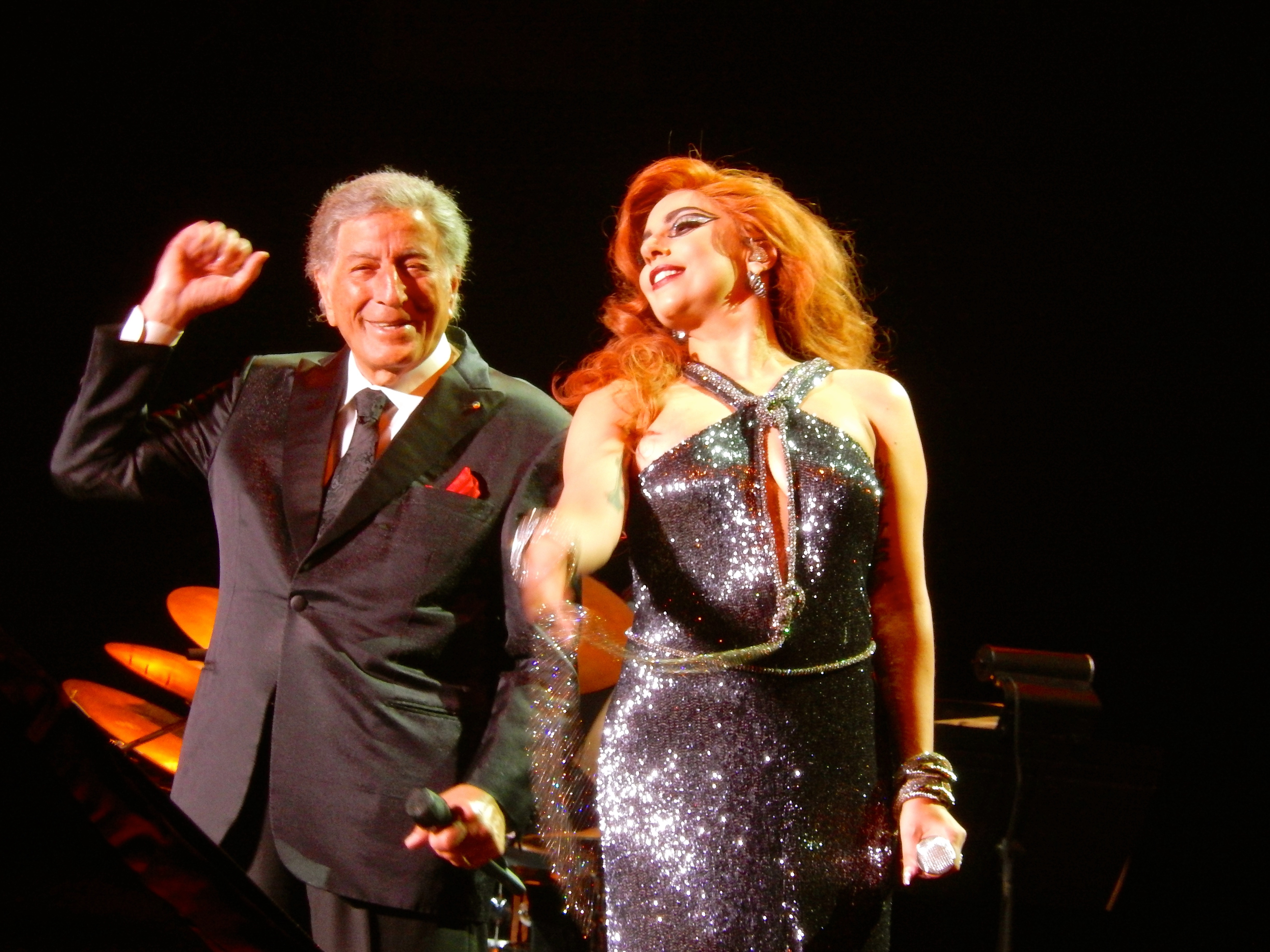 Cheek to Cheek Concert. The Axis. Planet Hollywood. Las Vegas. April 2015. Lady Gaga and Tony Bennett performing on the Cheek to Cheek Tour